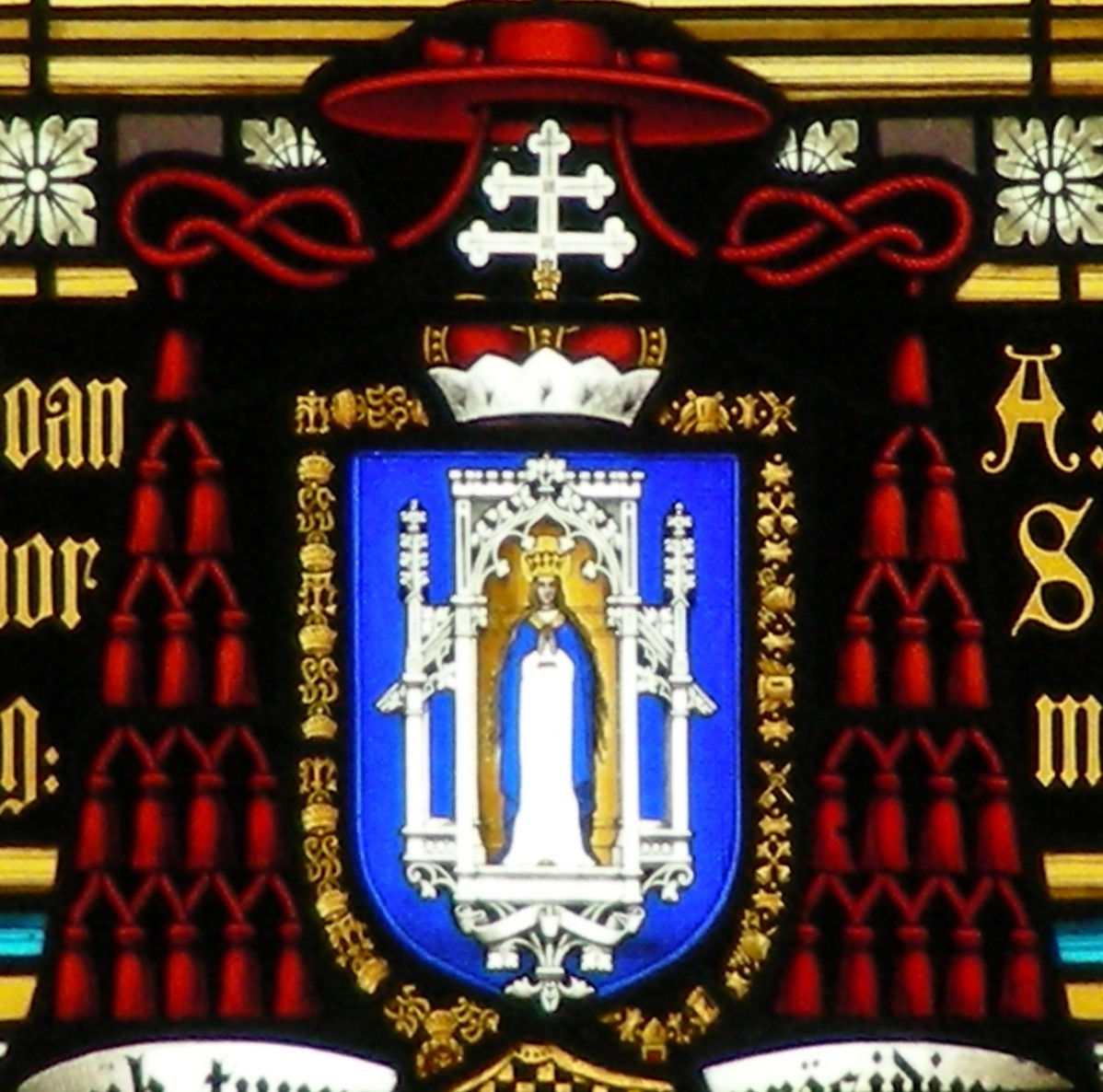 Coat of arms of János cardinal Simor, bishop of Győr, Hungary (1857 - 1867), archbishop of Esztergom, Hungary (1867 - 1891). Basilica in Marianka, Slovakia. Stained-glass window.